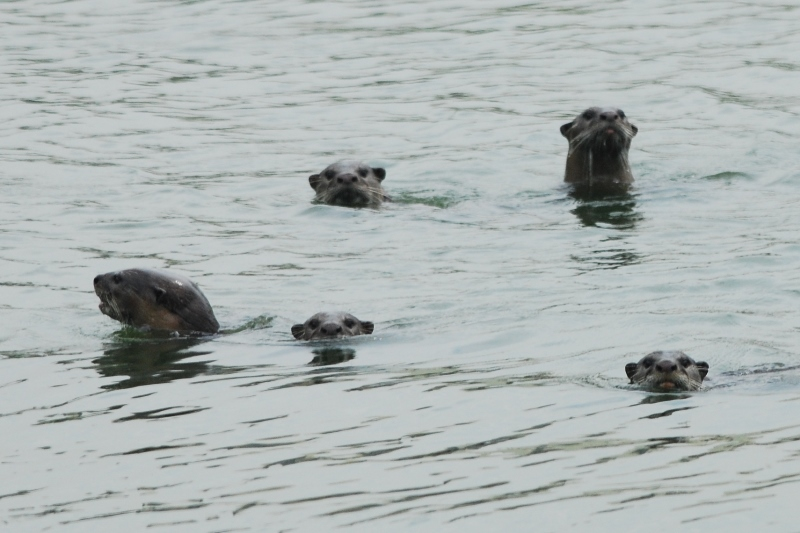 A family of smooth-coated otters (Lutrogale perspicillata) in Sungei Serangoon (Serangoon Reservoir), Singapore.